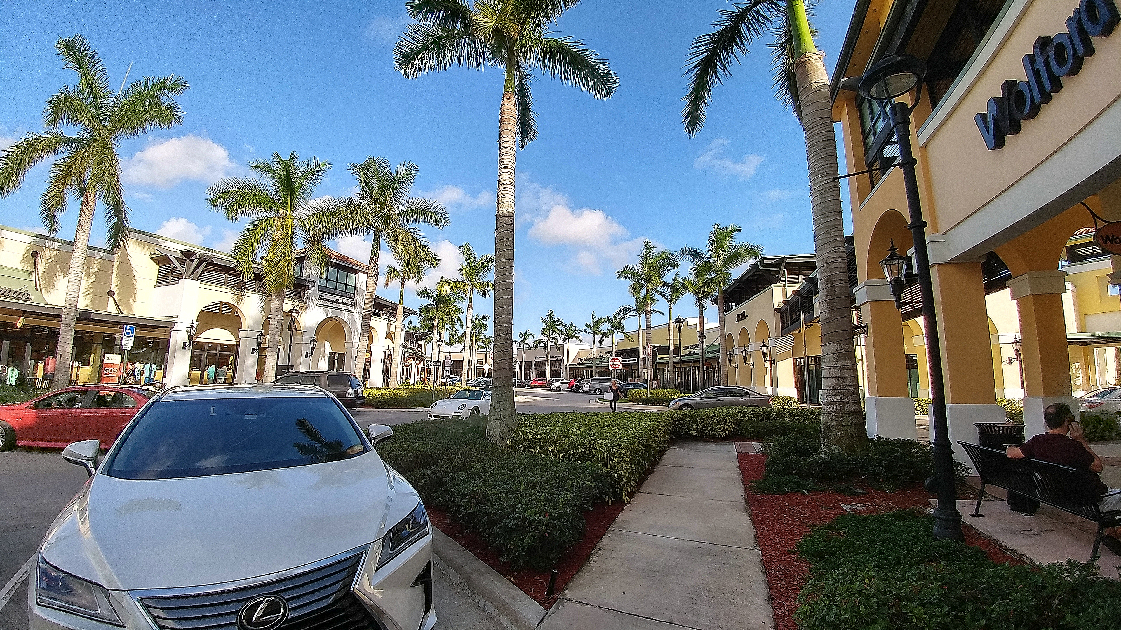 View of Sawgrass Mills